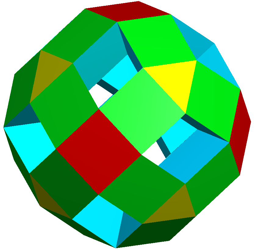 expanded cuboctahedron